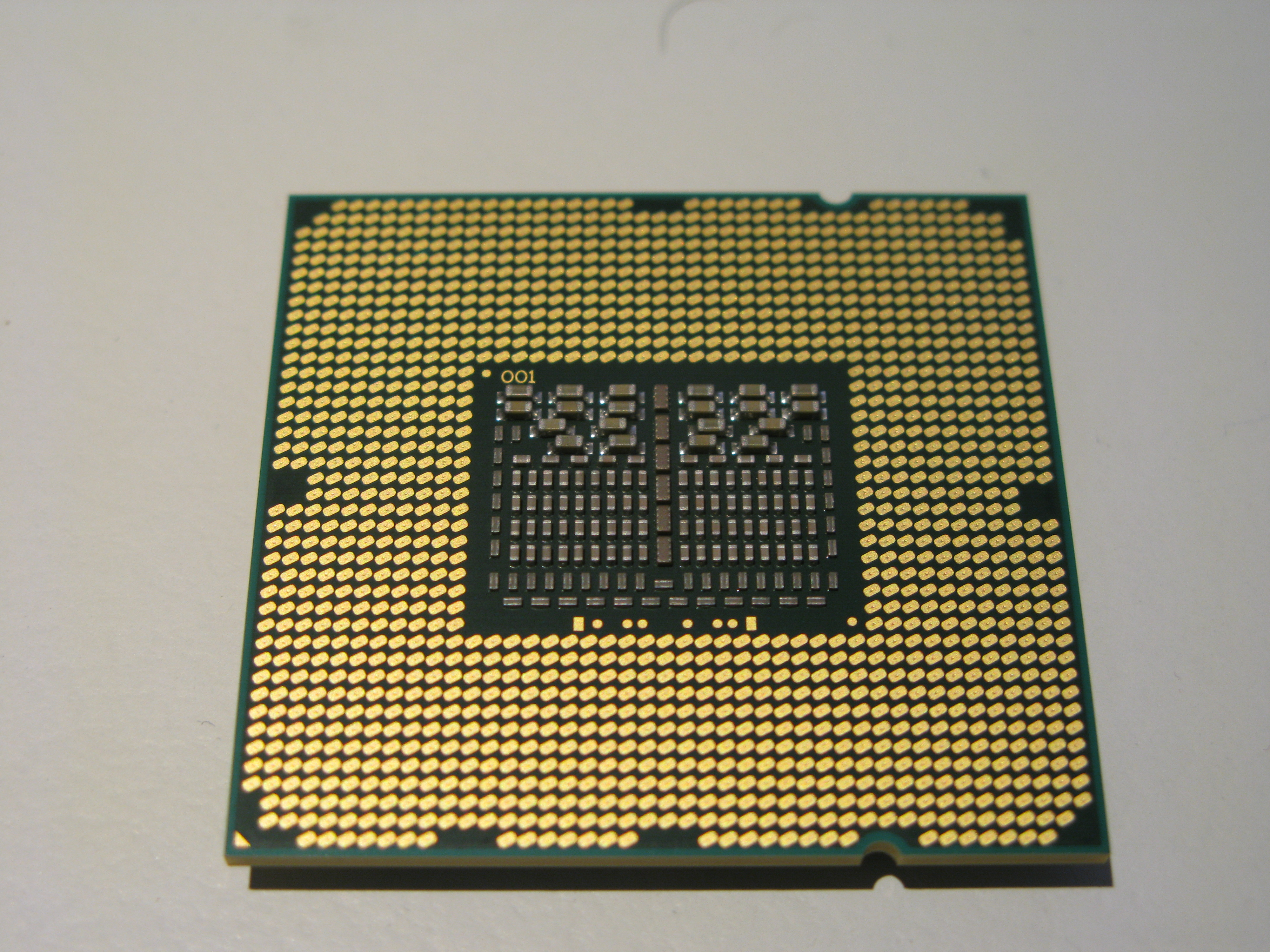 Intel Core i7-940 for LGA 1366 socket bottom view